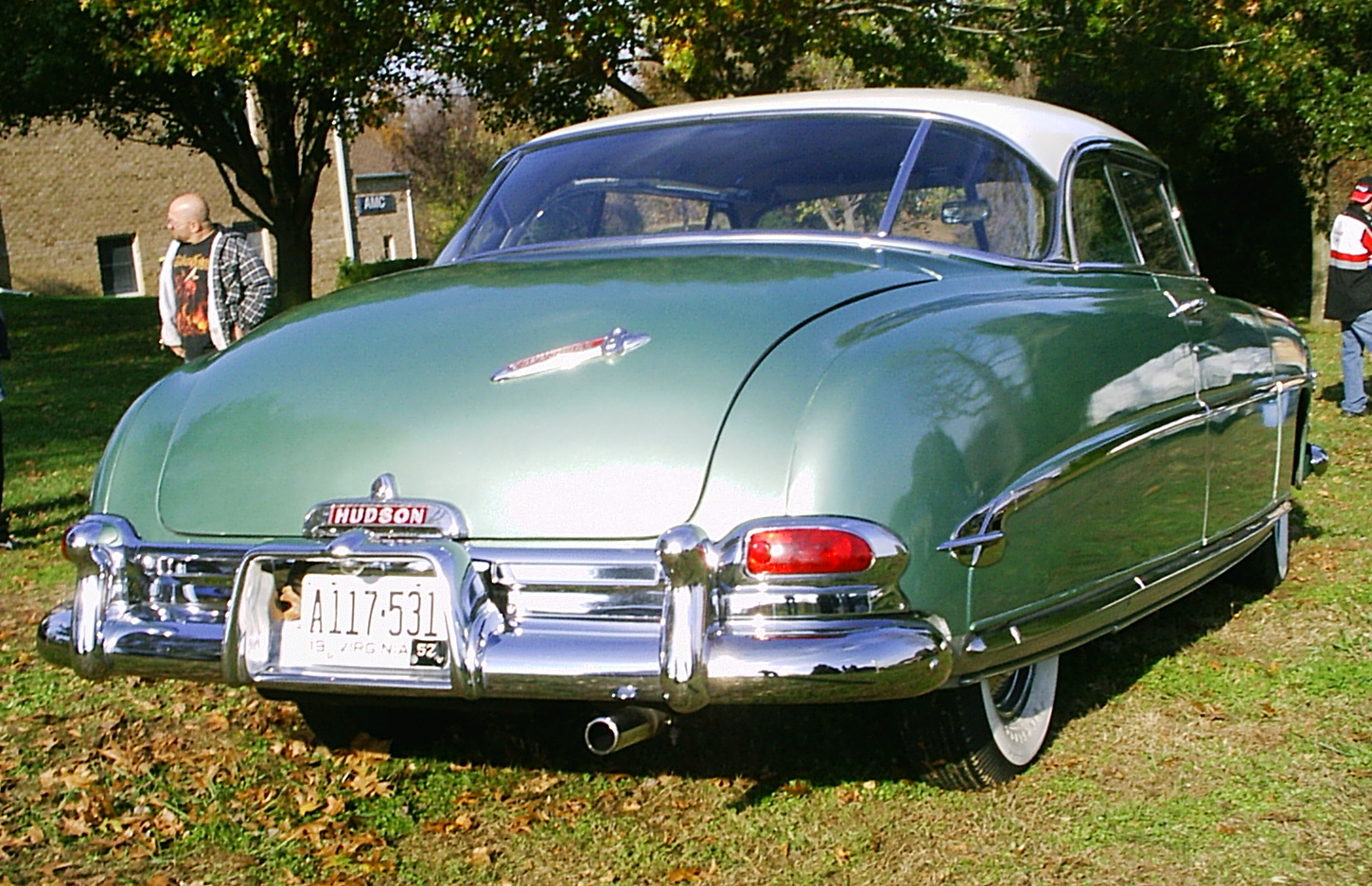 1952 Hudson Commodore 8, a full-sized two-door hardtop. Rear view.